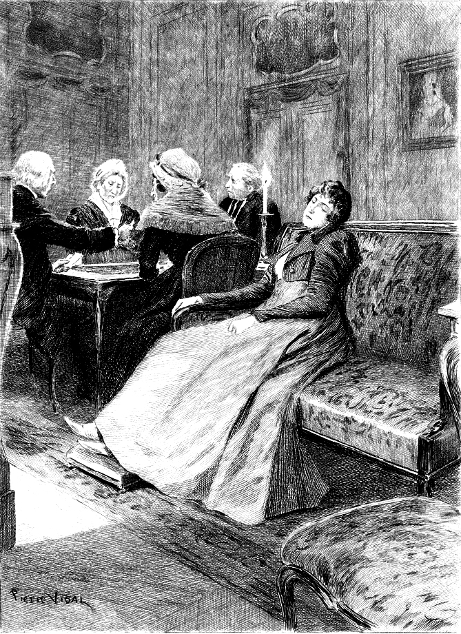 Illustration of Honoré de Balzac's A Dark Affair (1843): "At the Chateau of Cinq-Cygne".